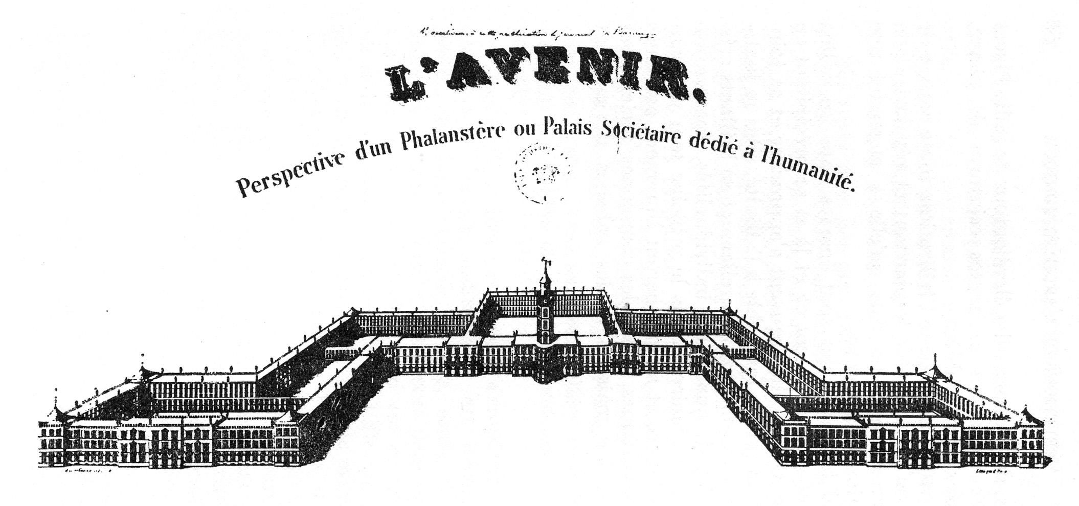 Perspective view of Charles Fourier's Phalanstère. The rural areas and the gardens are not represented.